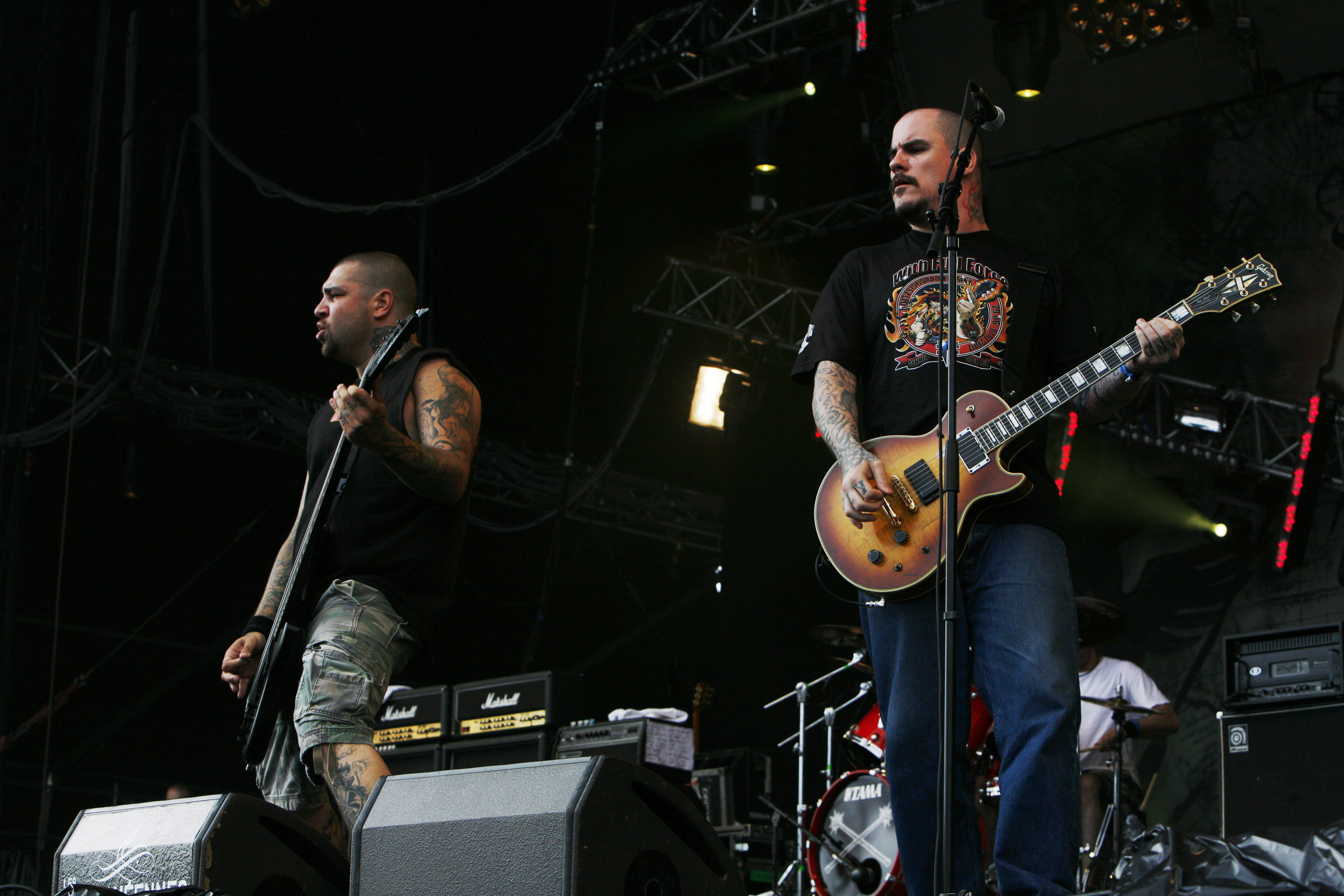 Hatebreed at the Eurockéennes of 2007